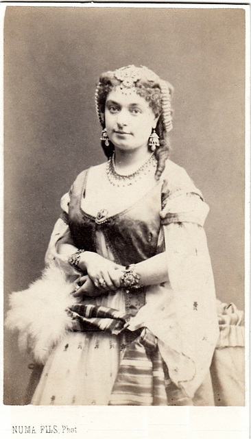 French singer Lise Tautin (Louise Vassières, 1836-1874) in Bohemian costume, photograph by Numa (Blanc) fils